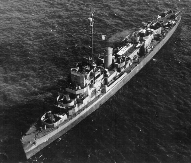 Aerial view of USS Eisner (DE-192)